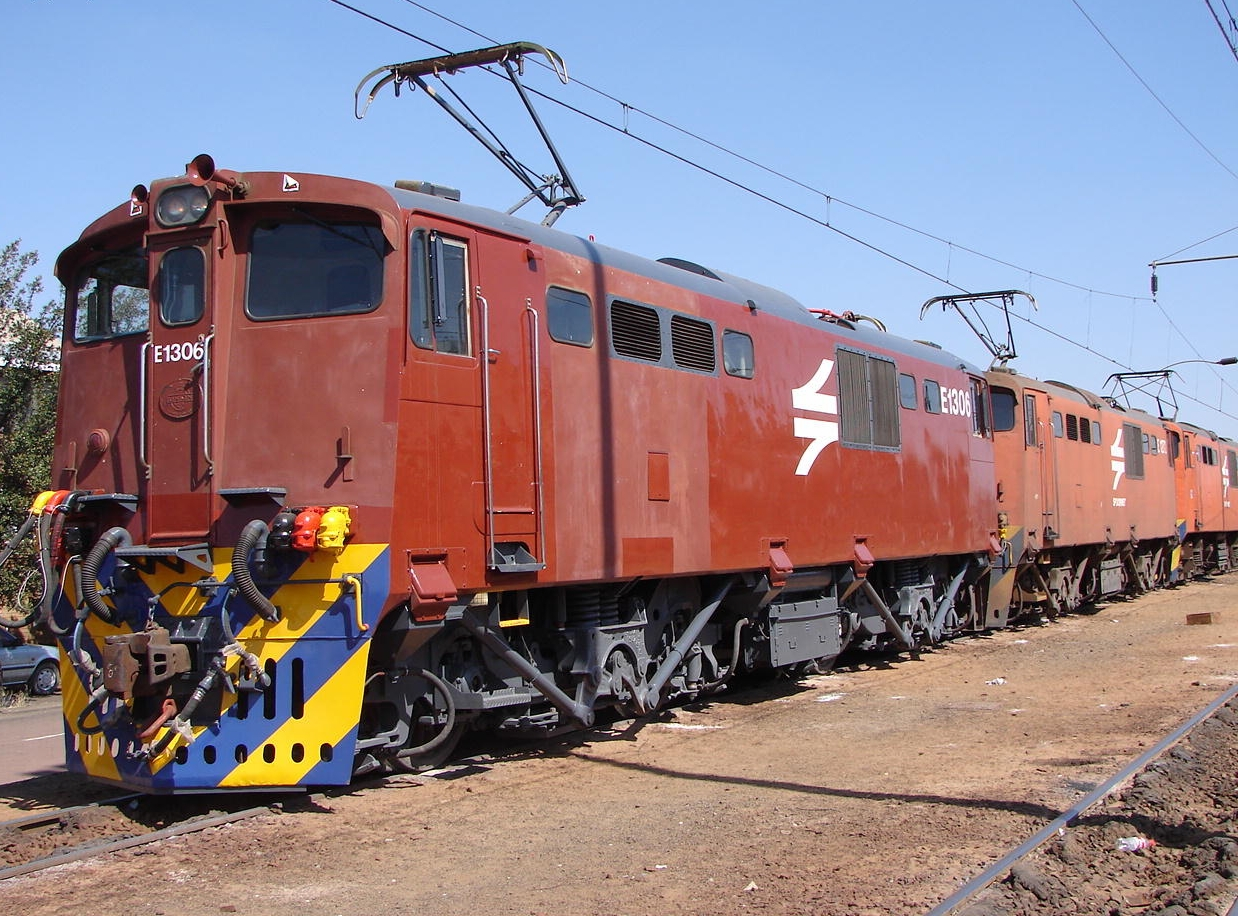 SAR Class 6E1 Series 3 E1306 Location: Beaconsfield, Kimberley, Northern Cape